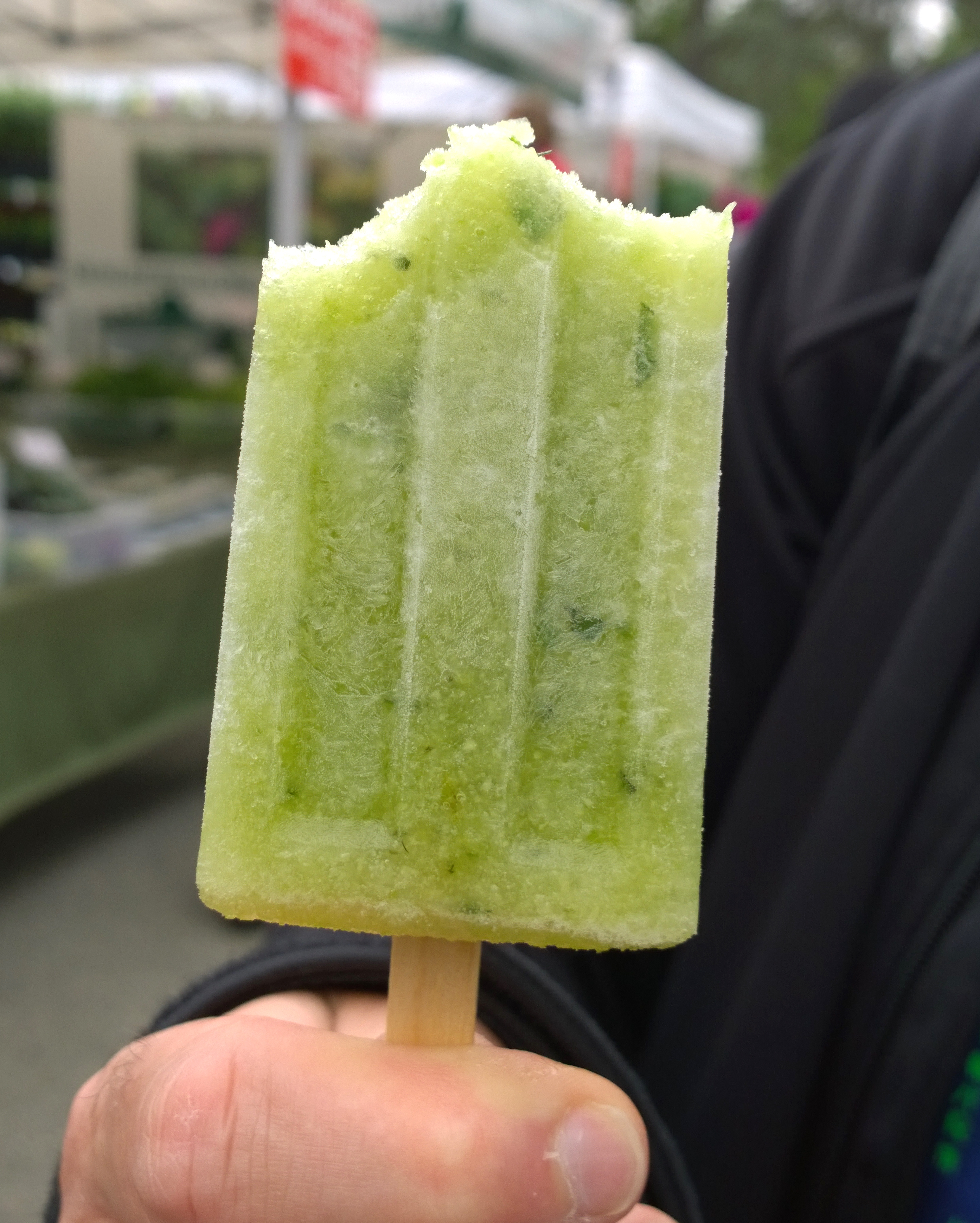 Cucumber, elderflower and mint ice pop from Nicepops